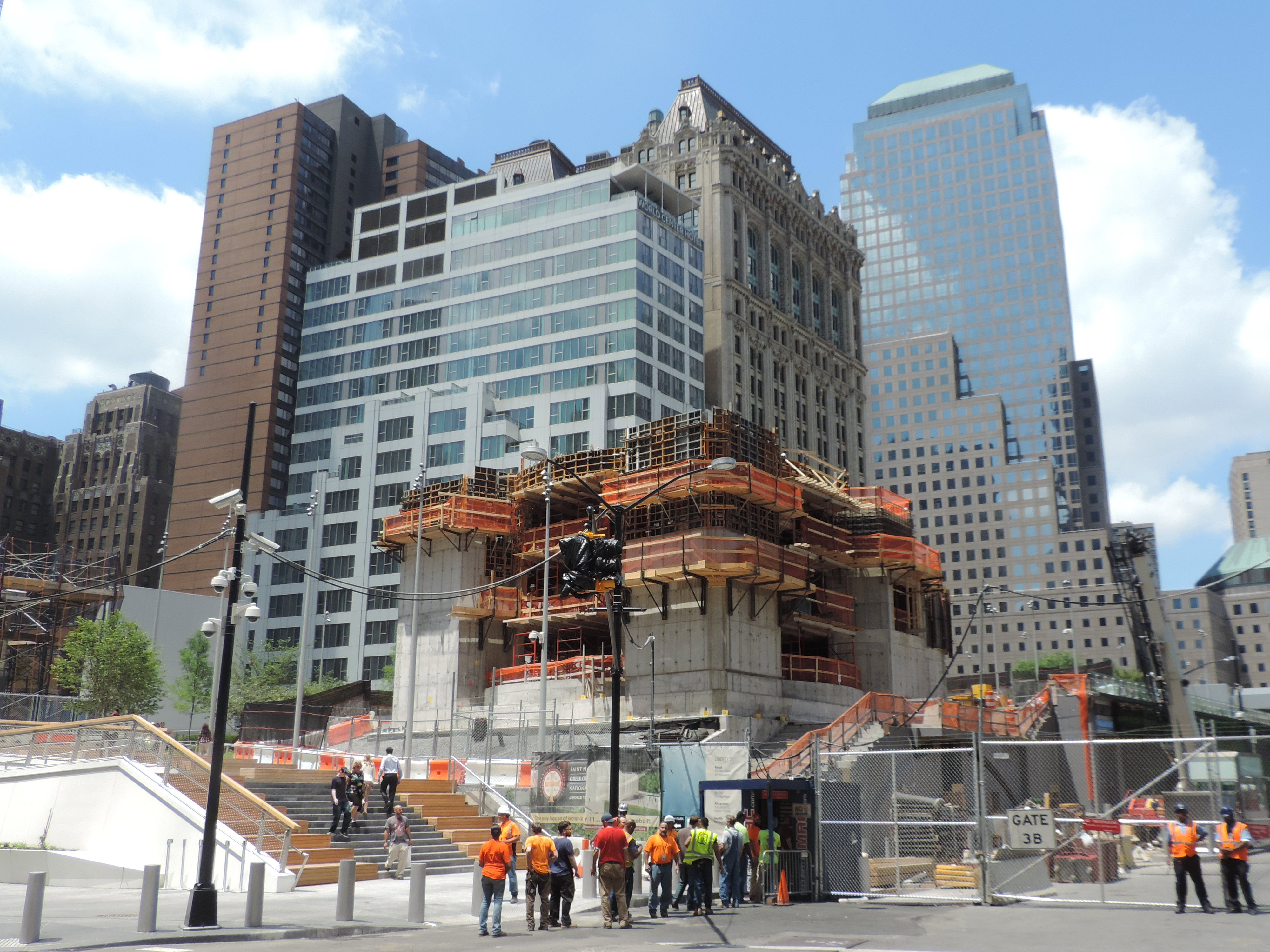 Looking west across Liberty Street at park opening day and St Nicholas Church